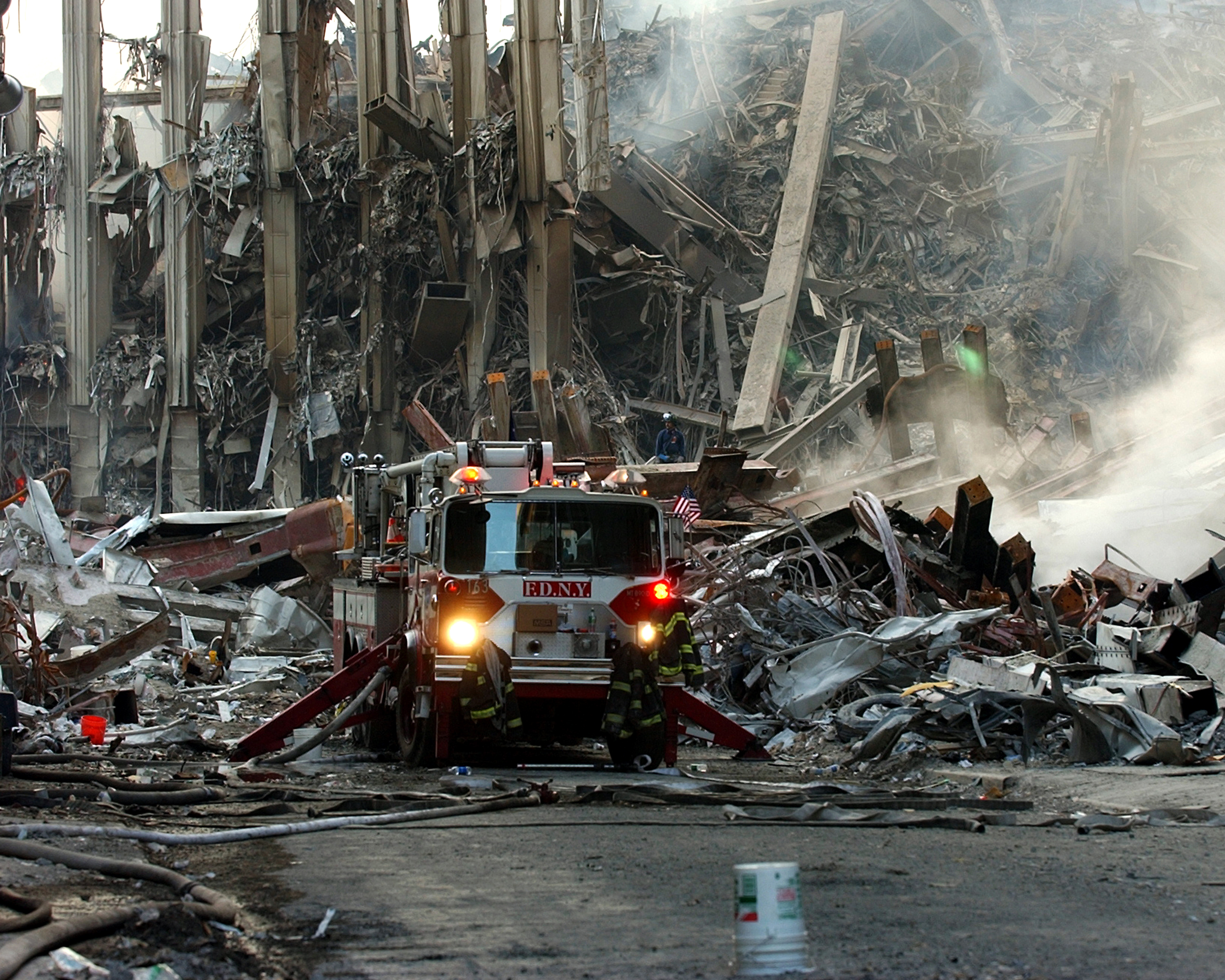 Ground Zero, New York City, N.Y. (Sept. 16, 2001) -- A lone fire engine at the crime scene in Manhattan where the World Trade Center collapsed following the Sept. 11 terrorist attack. Surrounding buildings were heavily damaged by the debris and massive force of the falling twin towers. Clean-up efforts are expected to continue for months. U.S. Navy photo by Chief Photographer's Mate Eric J. TIlford.